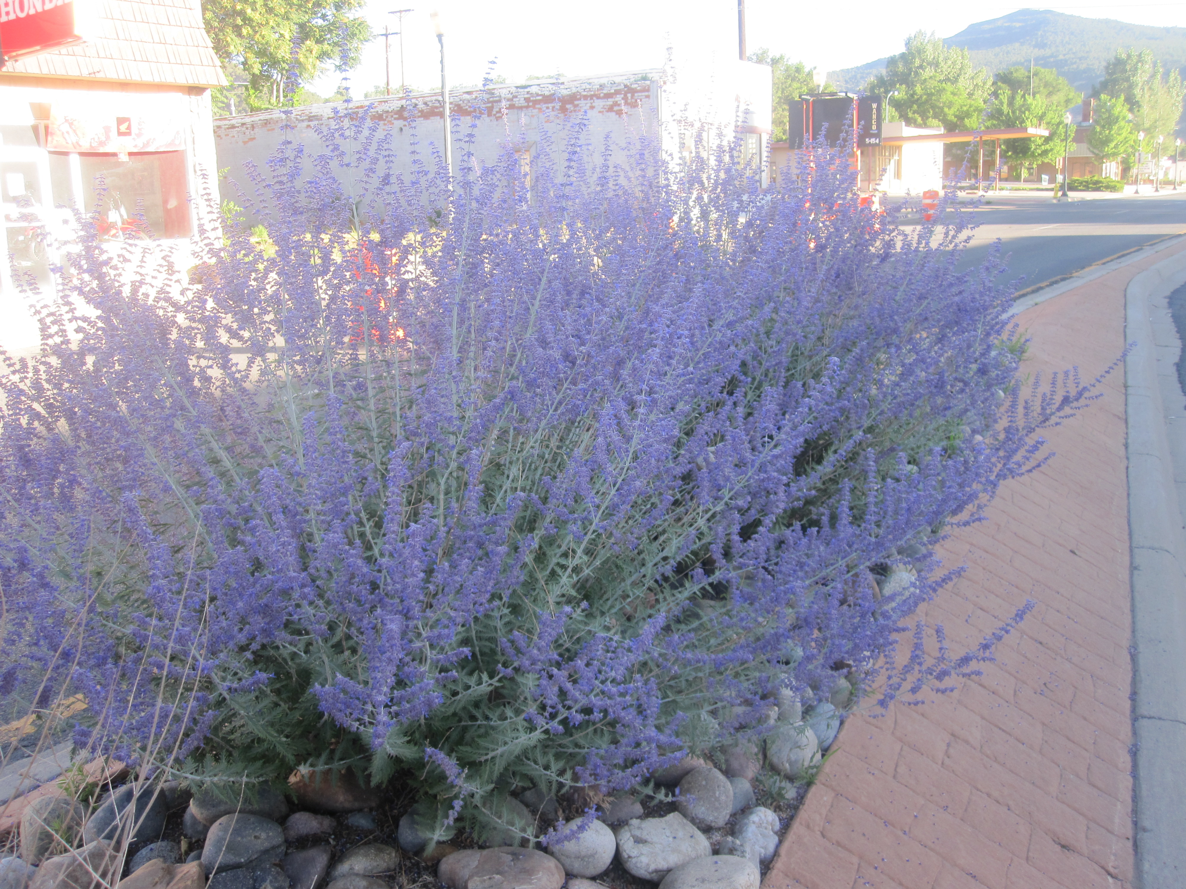 I took photo in Raton, NM, with Canon camera.